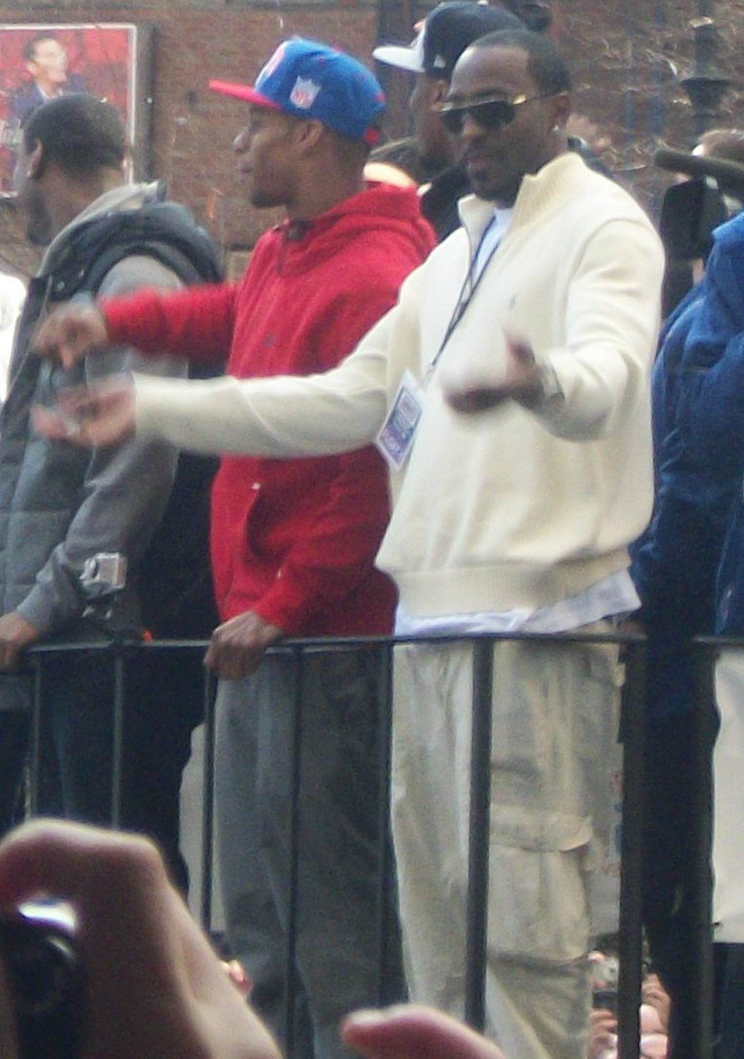 New York Giants wide receiver Hakeem Nicks in the Super Bowl XLVI parade in New York in February 2012.